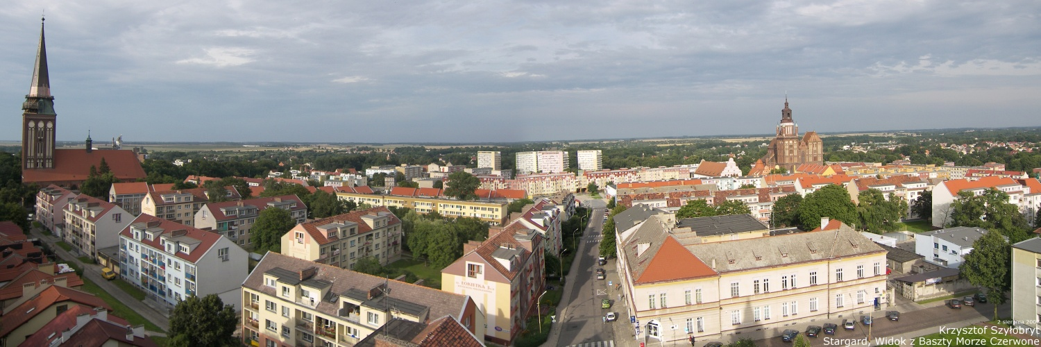 Old Town in Stargard, Poland